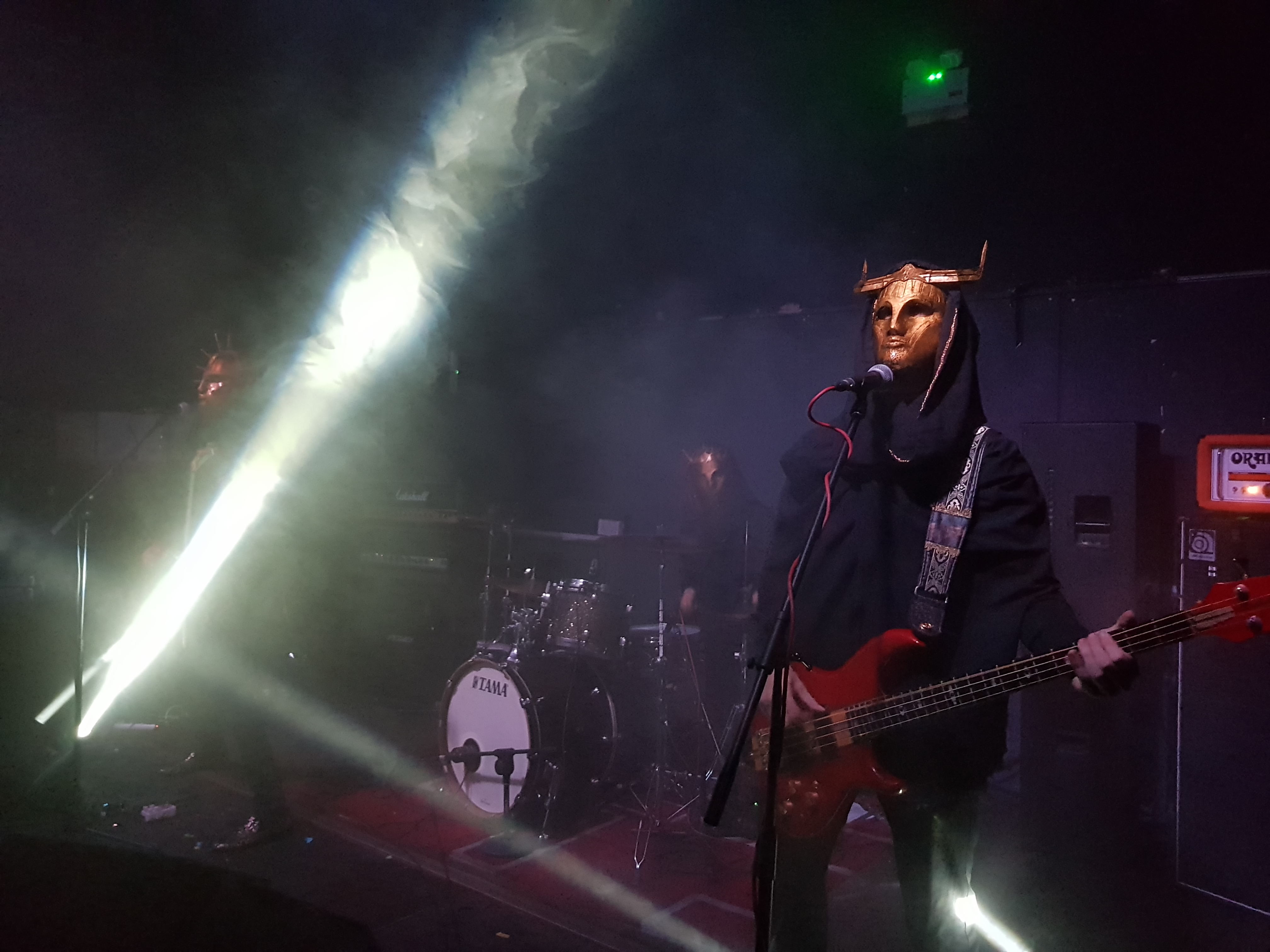 Imperial Triumphant live at Albert's, Nottingham, UK, during "The Greater Good" tour, 2019.